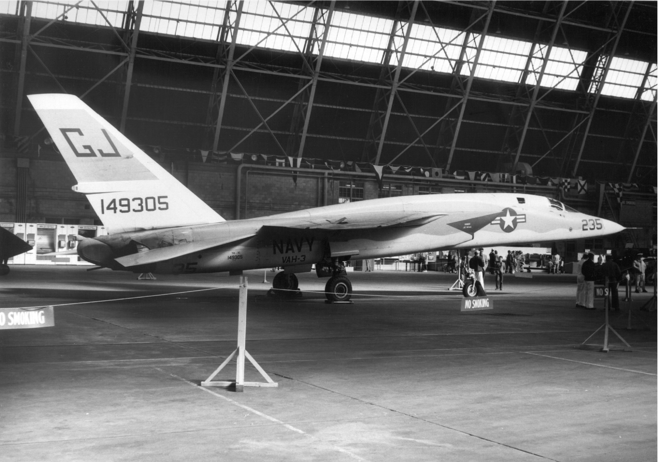 A U.S. Navy North American YA-5C Vigilante (BuNo 149305) of Heavy Attack Squadron 3 (VAH-3) on display at Naval Air Station South Weymouth, Massachusetts (USA). This aircraft was later modified to an RA-5C and was destroyed in a fire abaord the aircraft carrier USS Forrestal (CVA-59) in the Gulf of Tonkin on 29 July 1967 while in service with RVAH-11.